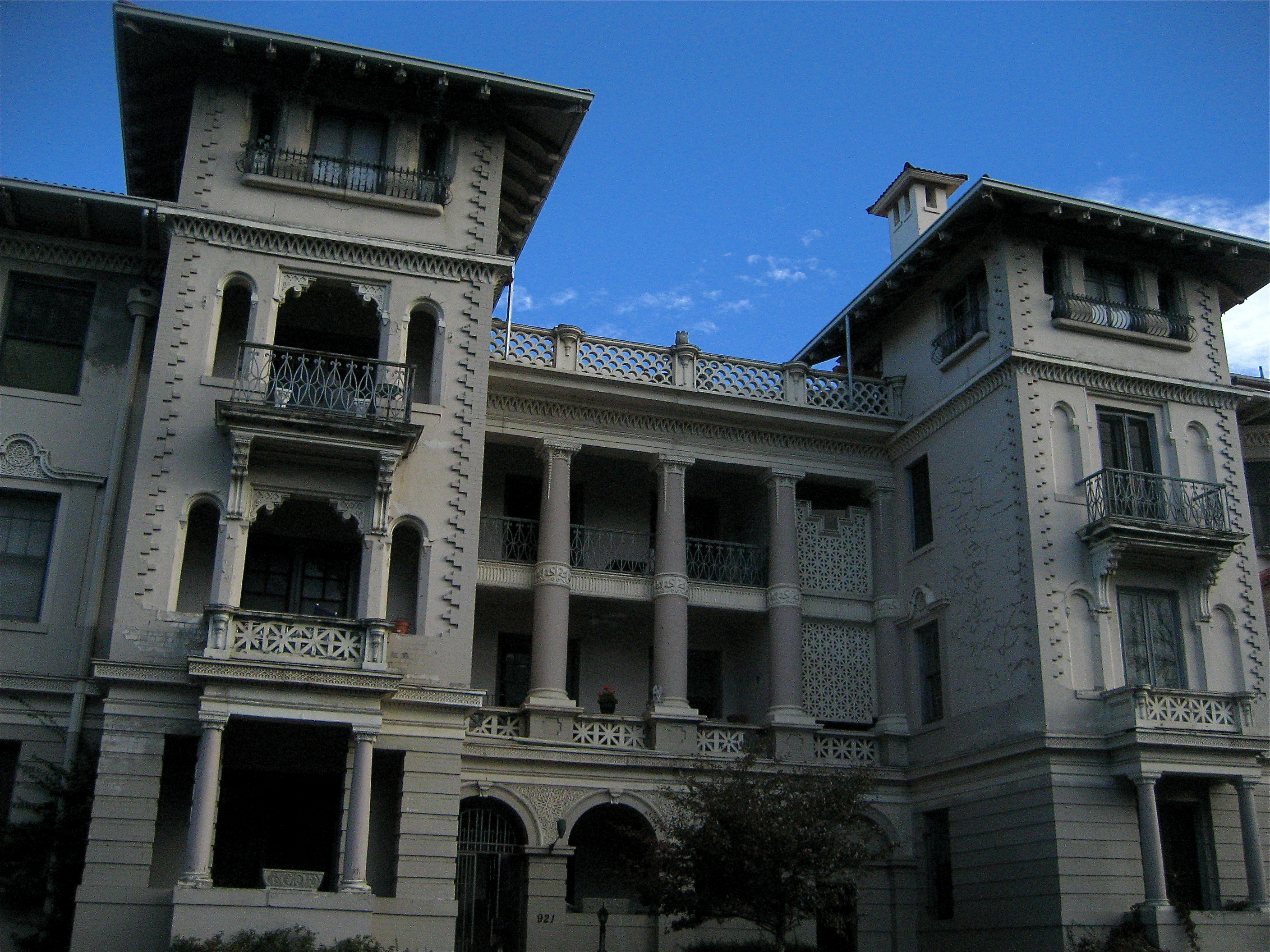 CORNWALL APARTMENTS 921 E. 13th Ave. National Register 10/8/1976, 5DV.183 Denver architect Walter Rice designed the 1901 Cornwall in a style reminiscent of Italian Renaissance architecture. The owner of the building, William T. Cornwall, was an executive of the Denver Fire Clay Company and a local real estate developer.